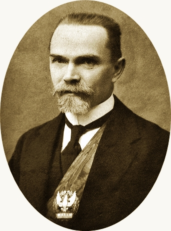 Maciej Glogier